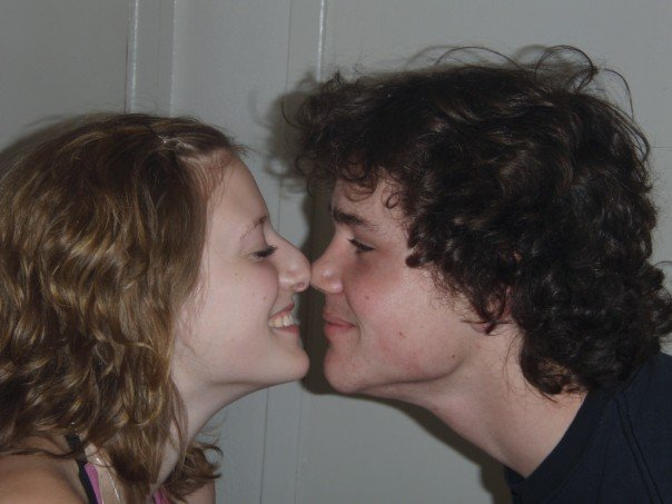 David Blaha-Nelson and Madeleine Bergstedt demonstrate an eskimo kiss in Arlington, Texas, USA